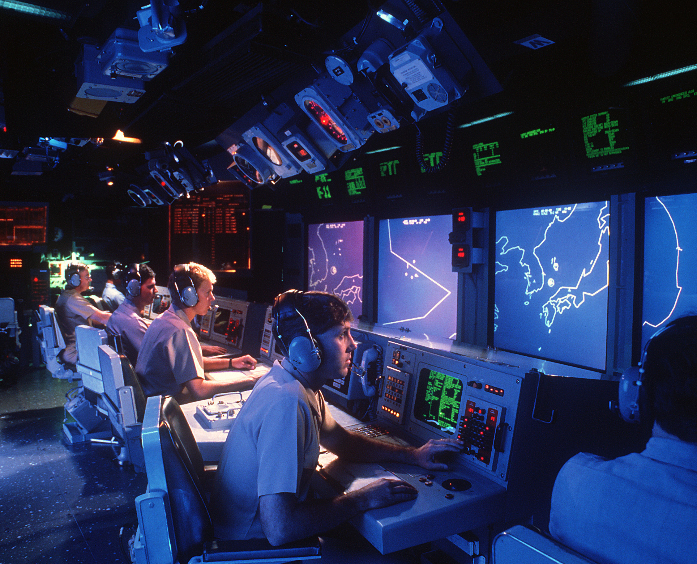 Crew members monitor radar screens in the combat information center aboard the guided missile cruiser USS VINCENNES (CG-49).